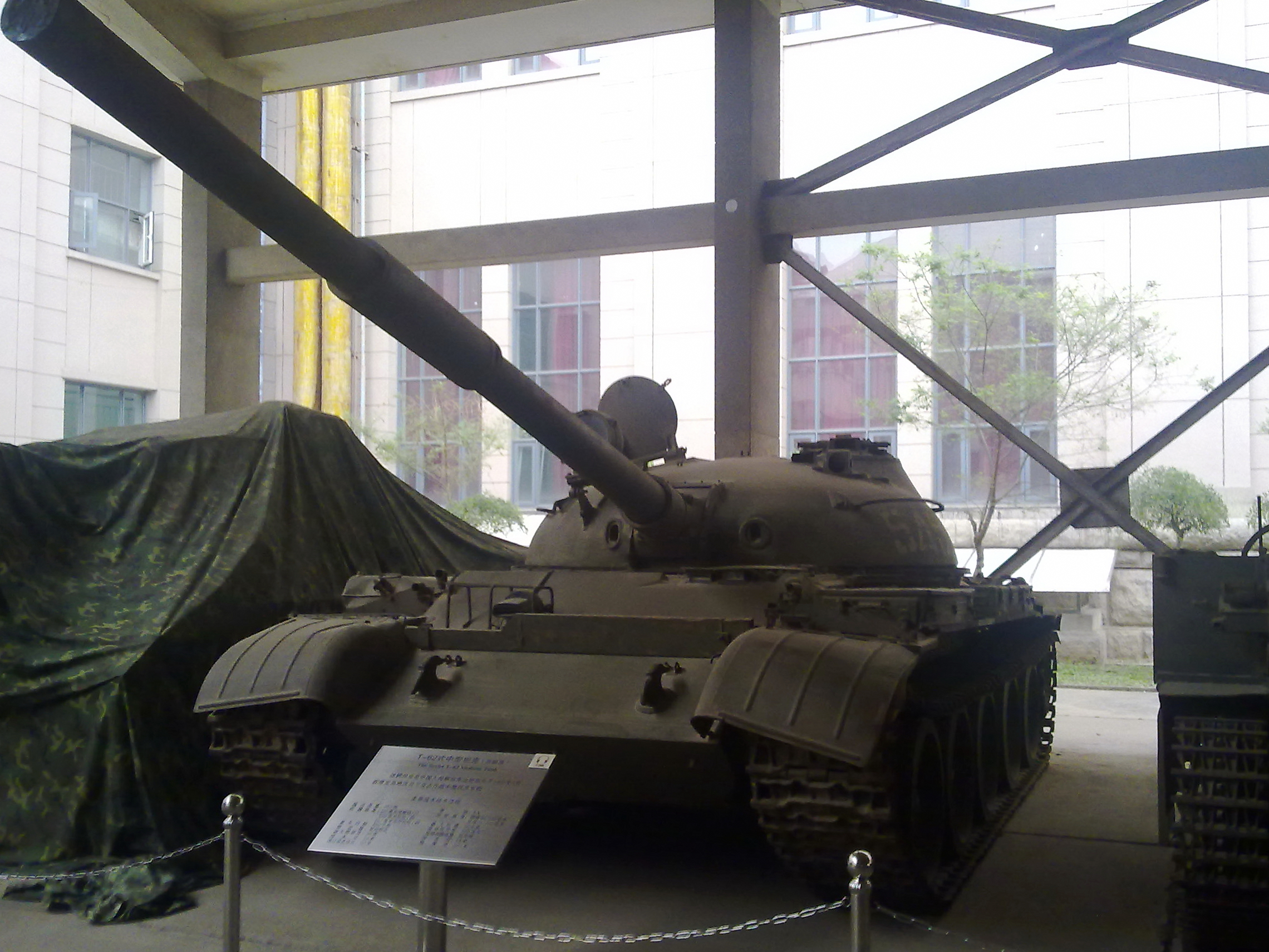 A T-62 tank which raised from the river's bottom after the 1969 Sino-Soviet border clash by the PLA along the Ussuri river.